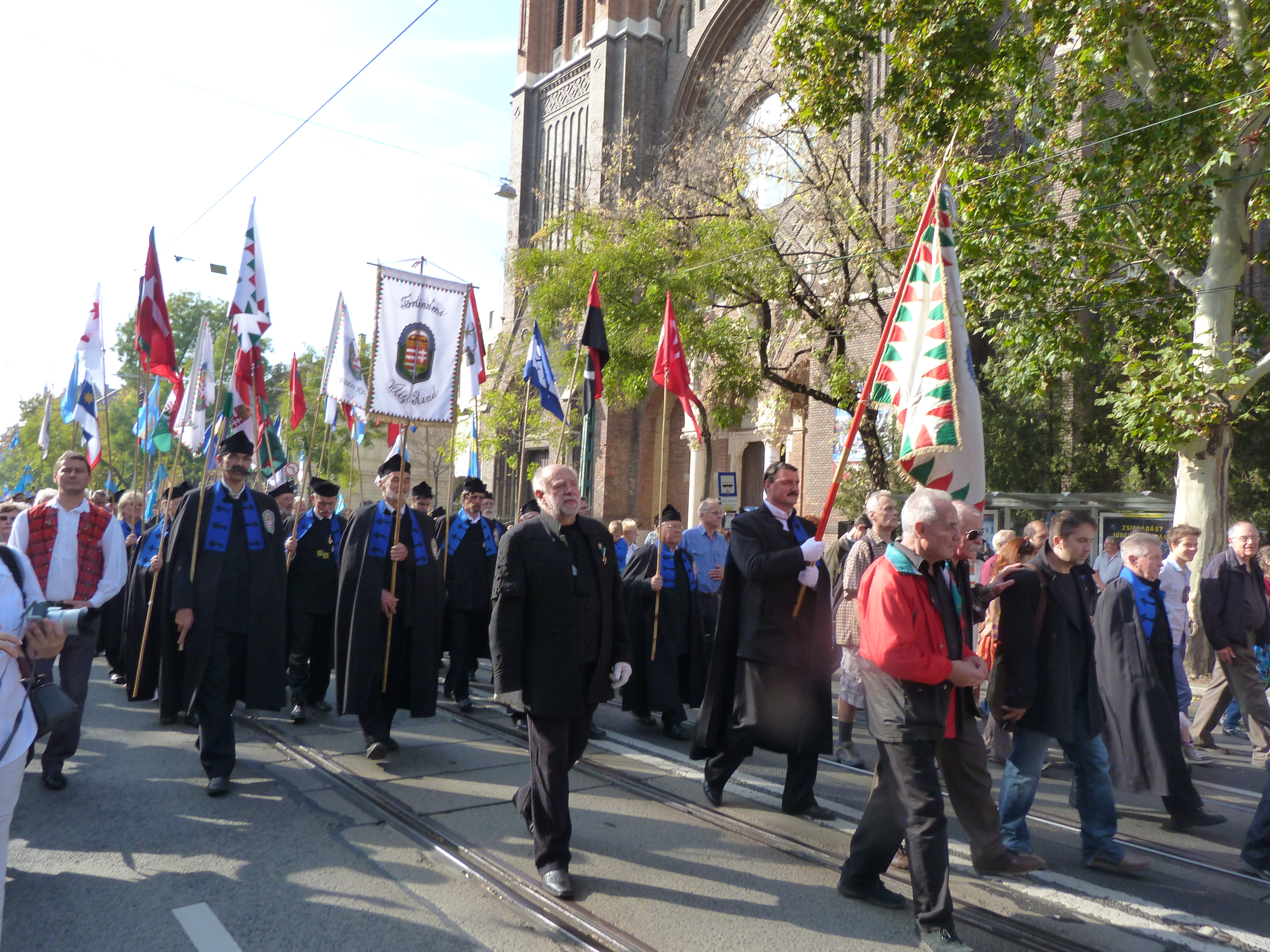 Székely (pronounced [ˈseːkɛj]) Land or Szeklerland (Hungarian: Székelyföld; Romanian: Ţinutul Secuiesc